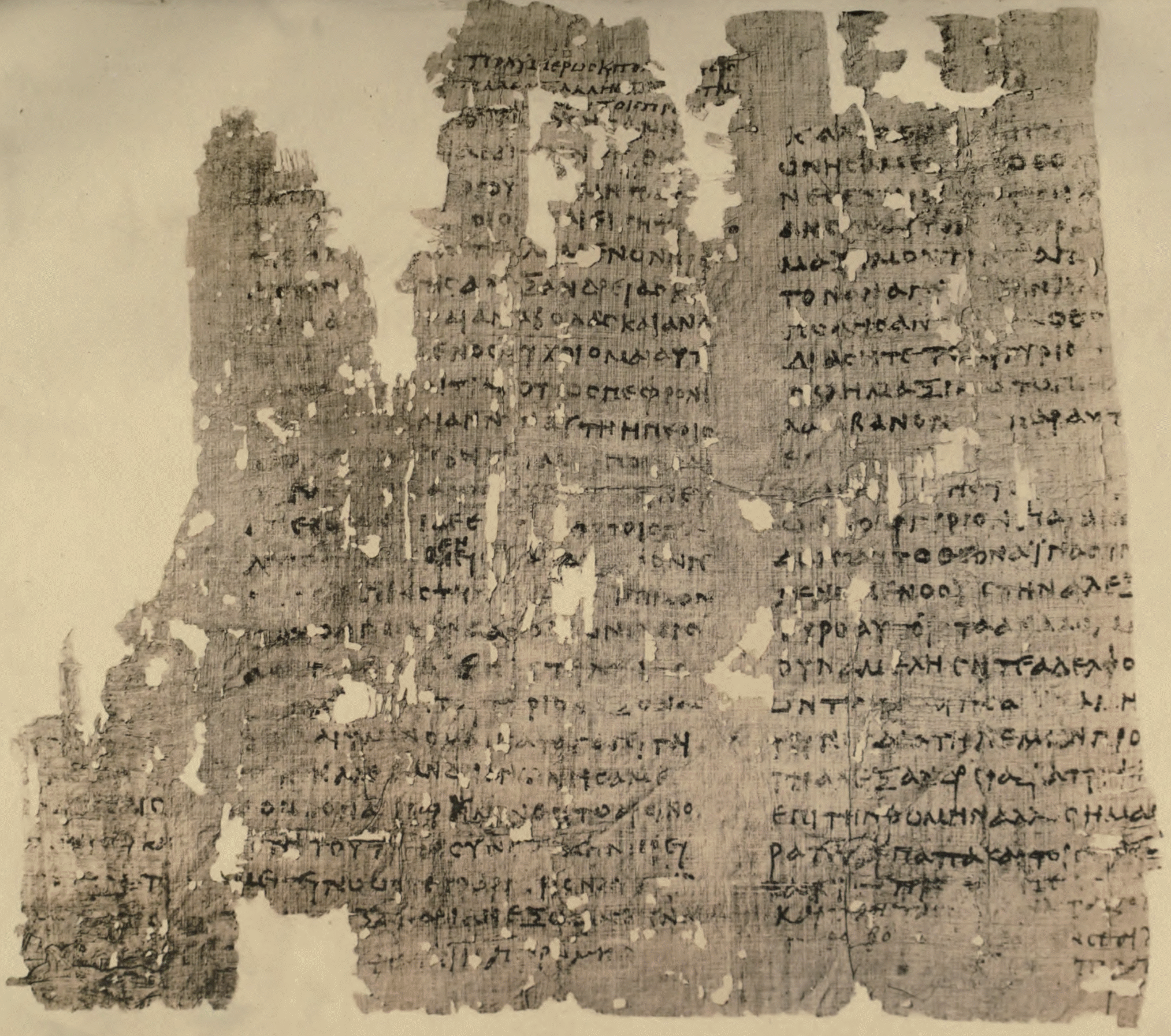 A letter from sent to Egypt by a Christian in Rome, approximately 250-285 AD. The papyrus contains part of the first verse of the Epistle to the Hebrews (Papyrus Amherst 3b), and on the reverse side Genesis 1:1-5 (Papyrus Amherst 3c).